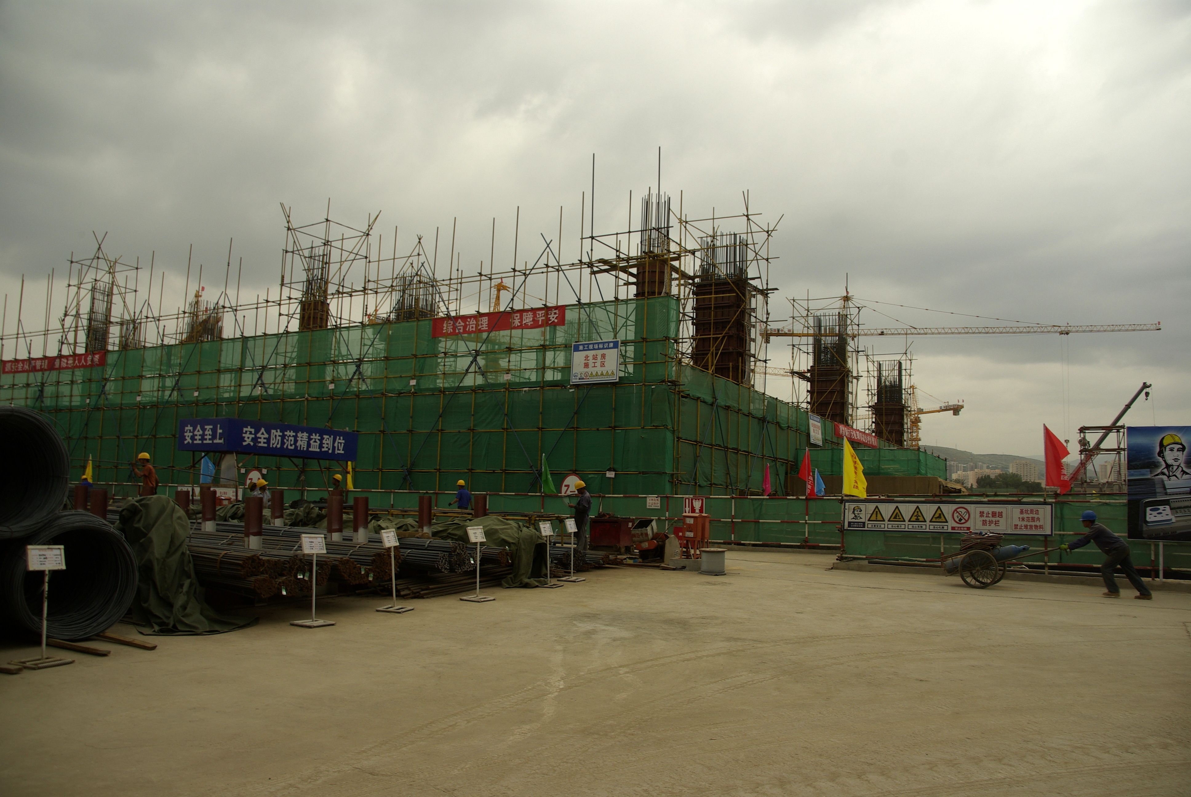 Formwork rising up at the new High Speed Railway Lanzhou West Railway Station under construction July 2013